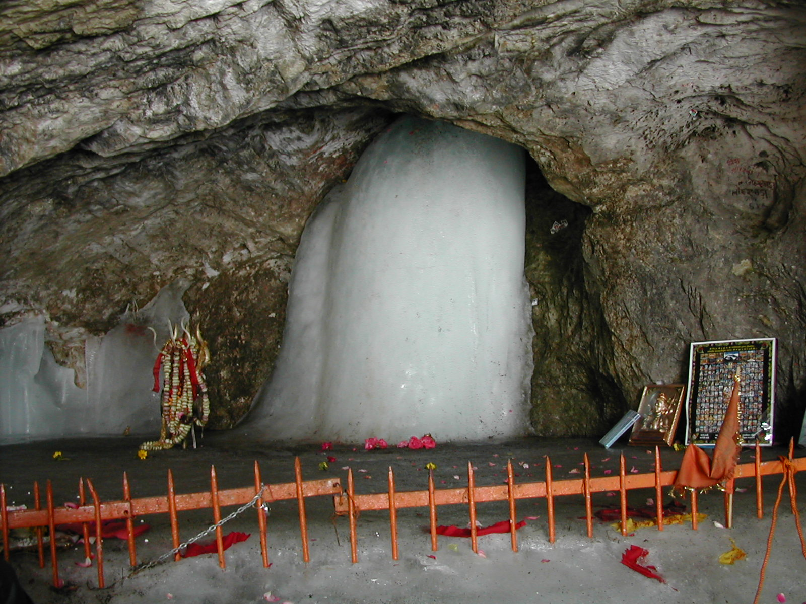 Photo of Lord Amarnath taken by Mr.Gangadhar Tambe, during his Pilgrimage to Lord Amarnath. Ice pillar.